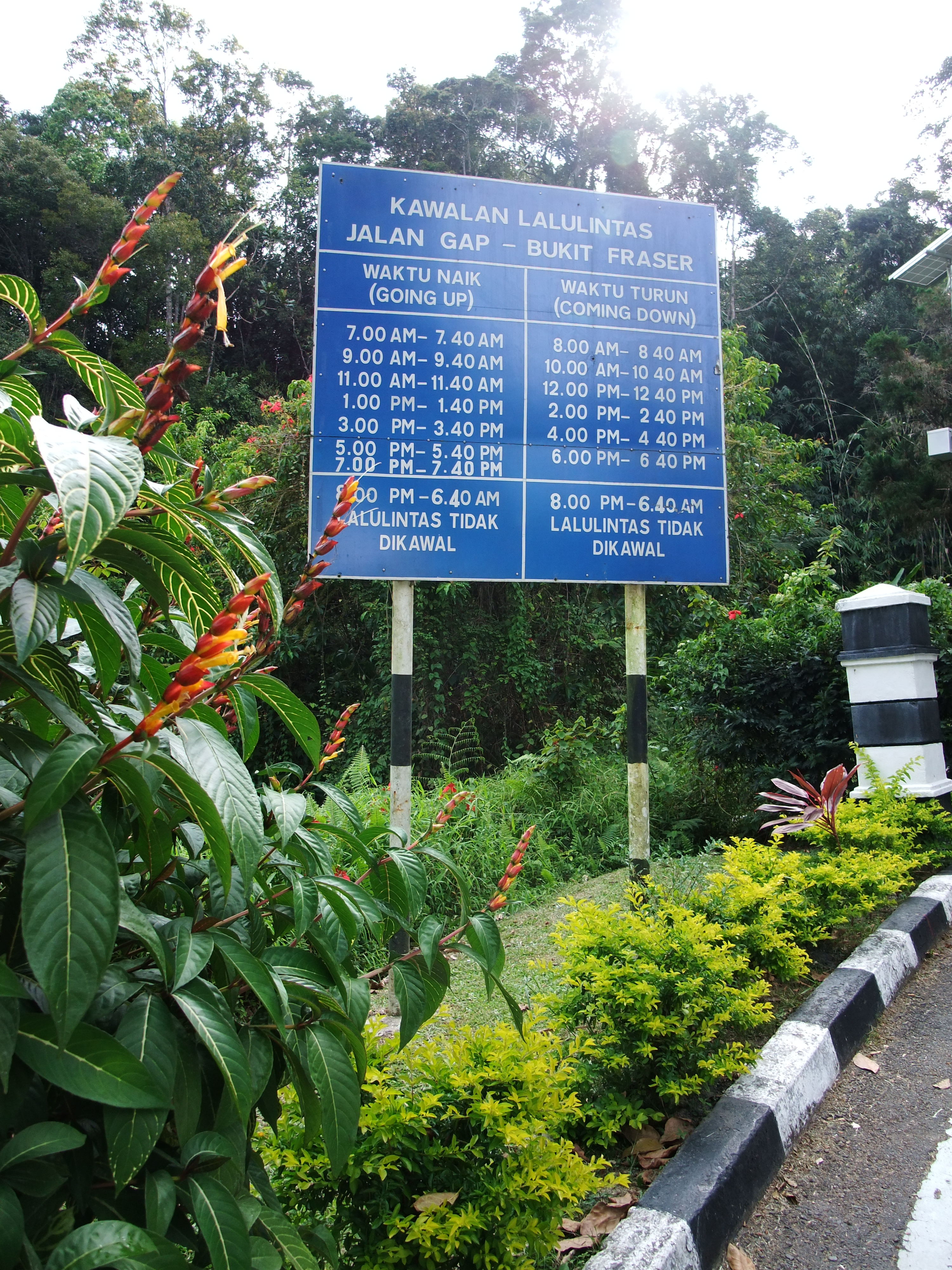 Timetable for the single road up to Fraser's Hill